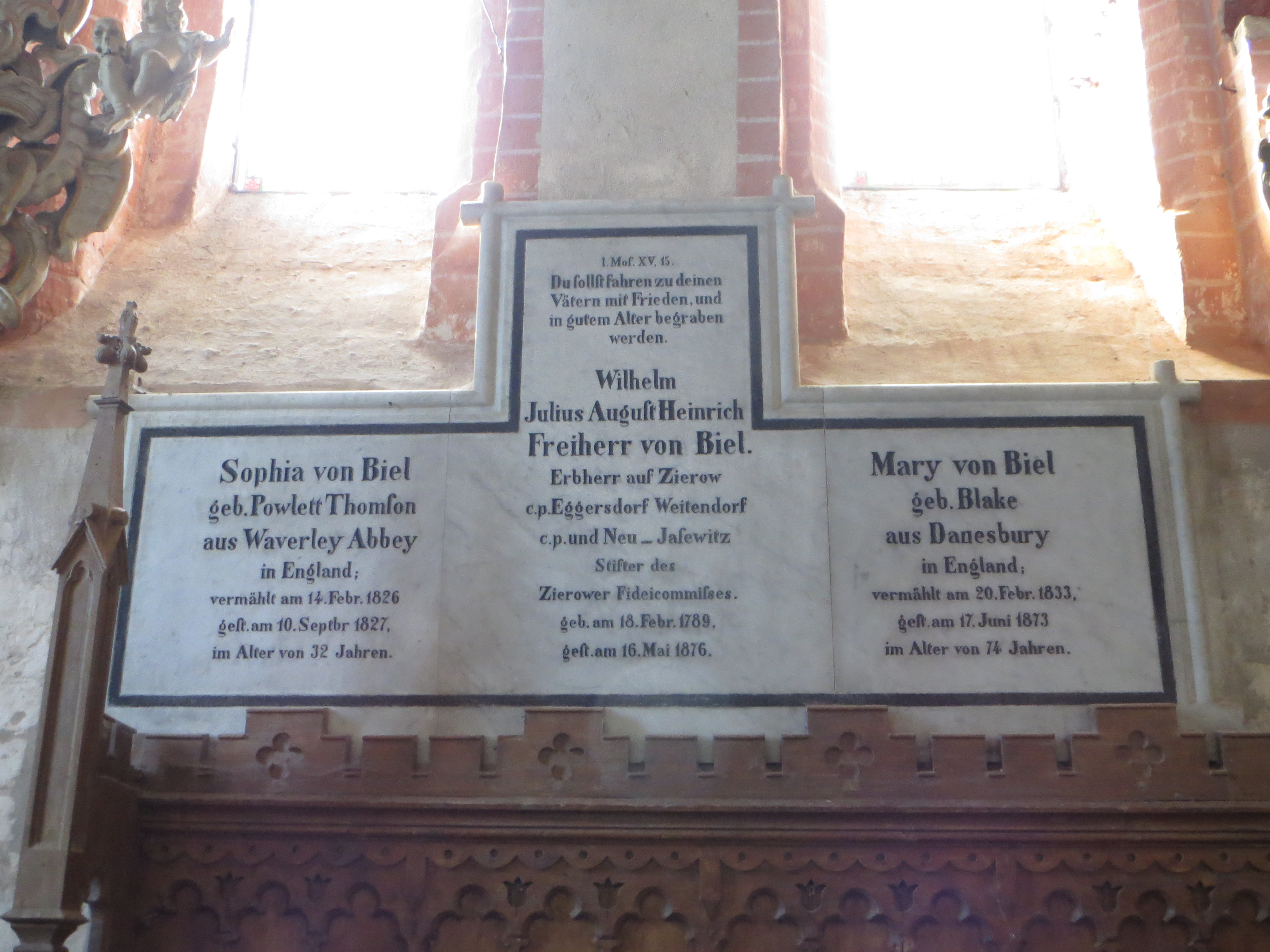 Church in Proseken: Biel memorial